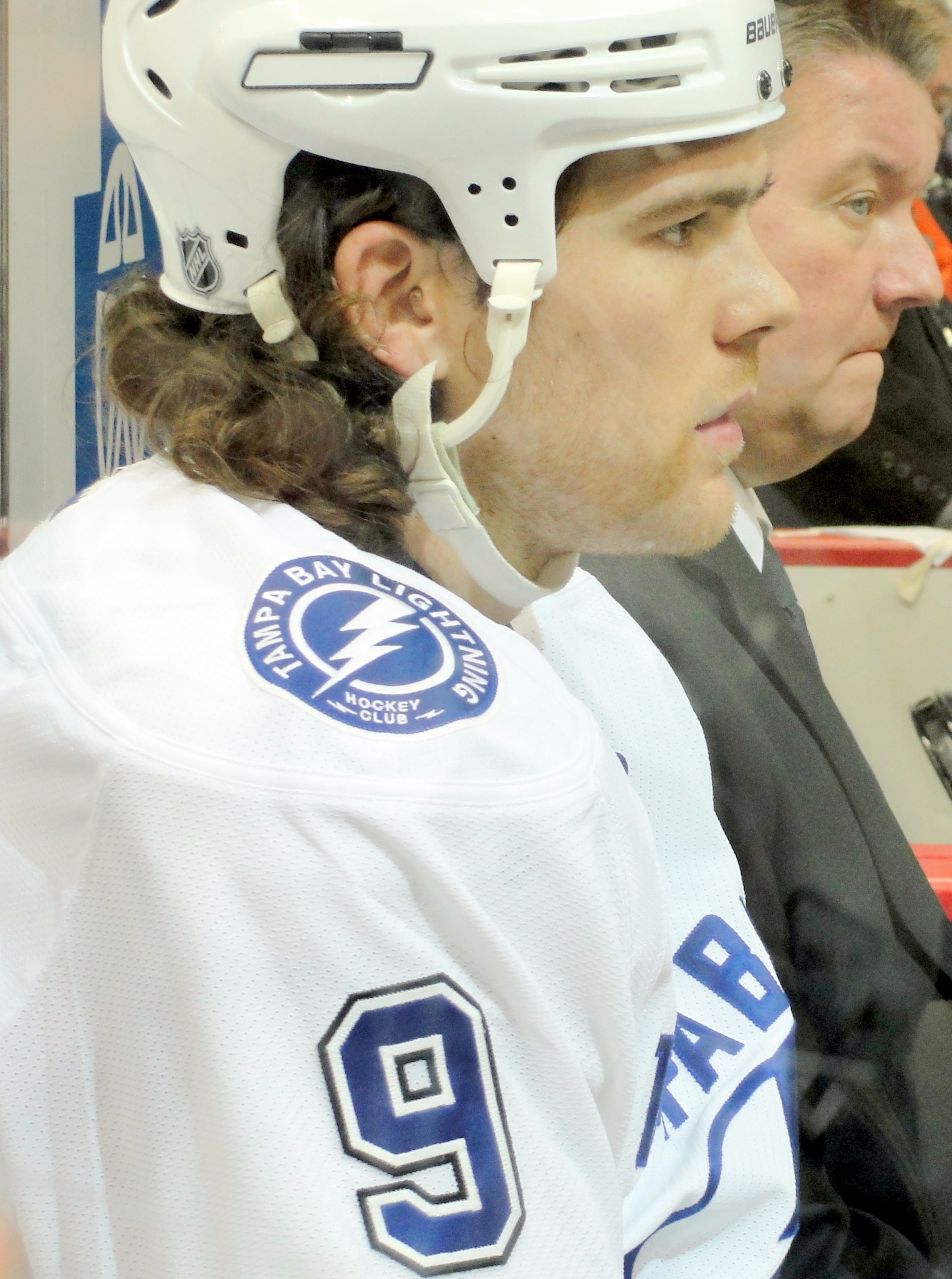 Steve Downie of the Tampa Bay Lightning during a February 12, 2012 game against the Pittsburgh Penguins at Consol Energy Center in Pittsburgh, PA.